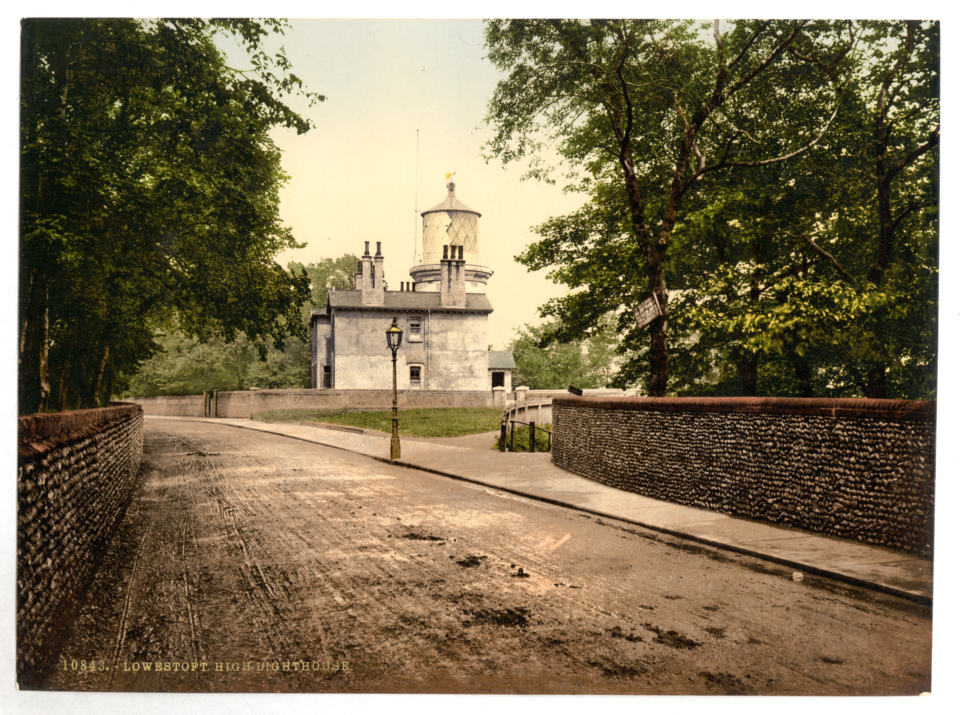 Forms part of: Views of the British Isles, in the Photochrom print collection.; More information about the Photochrom Print Collection is available at Title from the Detroit Publishing Co., Catalogue J-foreign section, Detroit, Mich. : Detroit Publishing Company, 1905.; Print no. "10843".